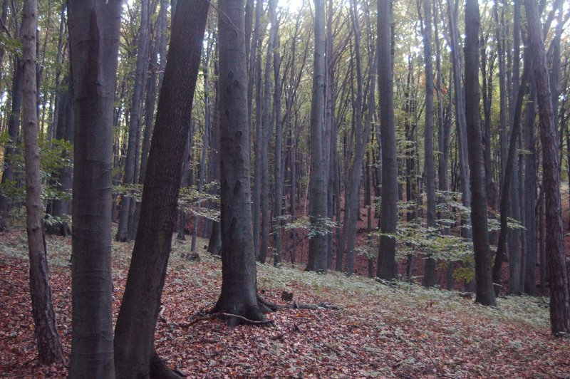 Beech forest, Little Carpathians, western Slovakia